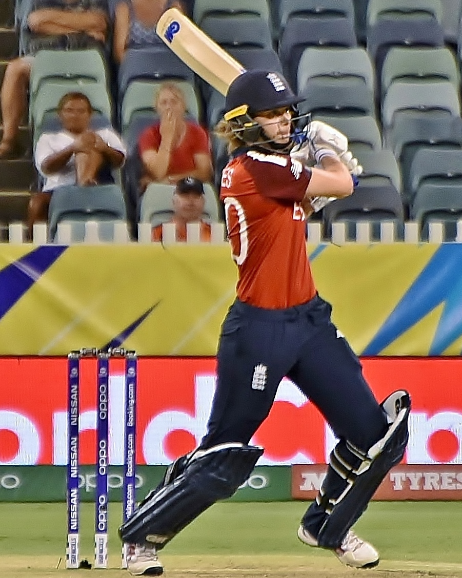 Amy Jones batting for England against South Africa during their 2020 ICC Women's T20 World Cup match at the WACA Ground in Perth, Australia